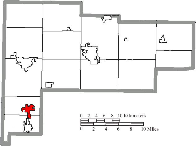 Map of the municipal and township boundaries of Auglaize County, Ohio, United States, as of the 2000 census, with the location of the village of New Bremen highlighted. Township borders are shown only in unincorporated areas in order to differentiate incorporated and unincorporated areas more clearly.